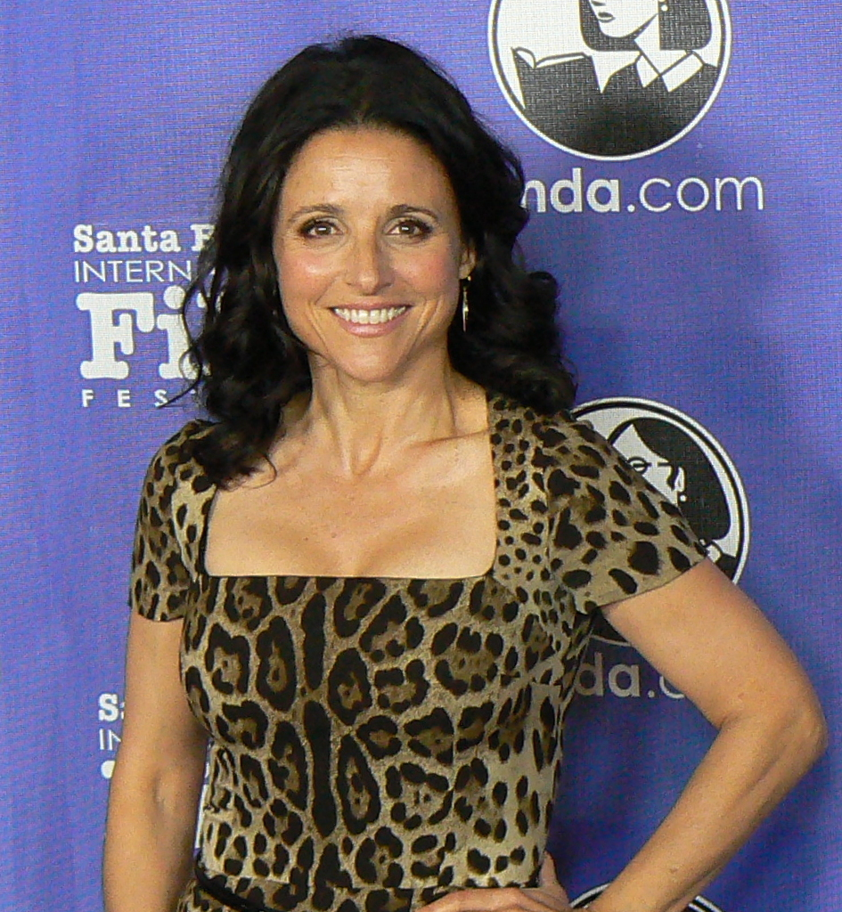 Julia Louis-Dreyfus at the Santa Barbara International Film Festival 2012.